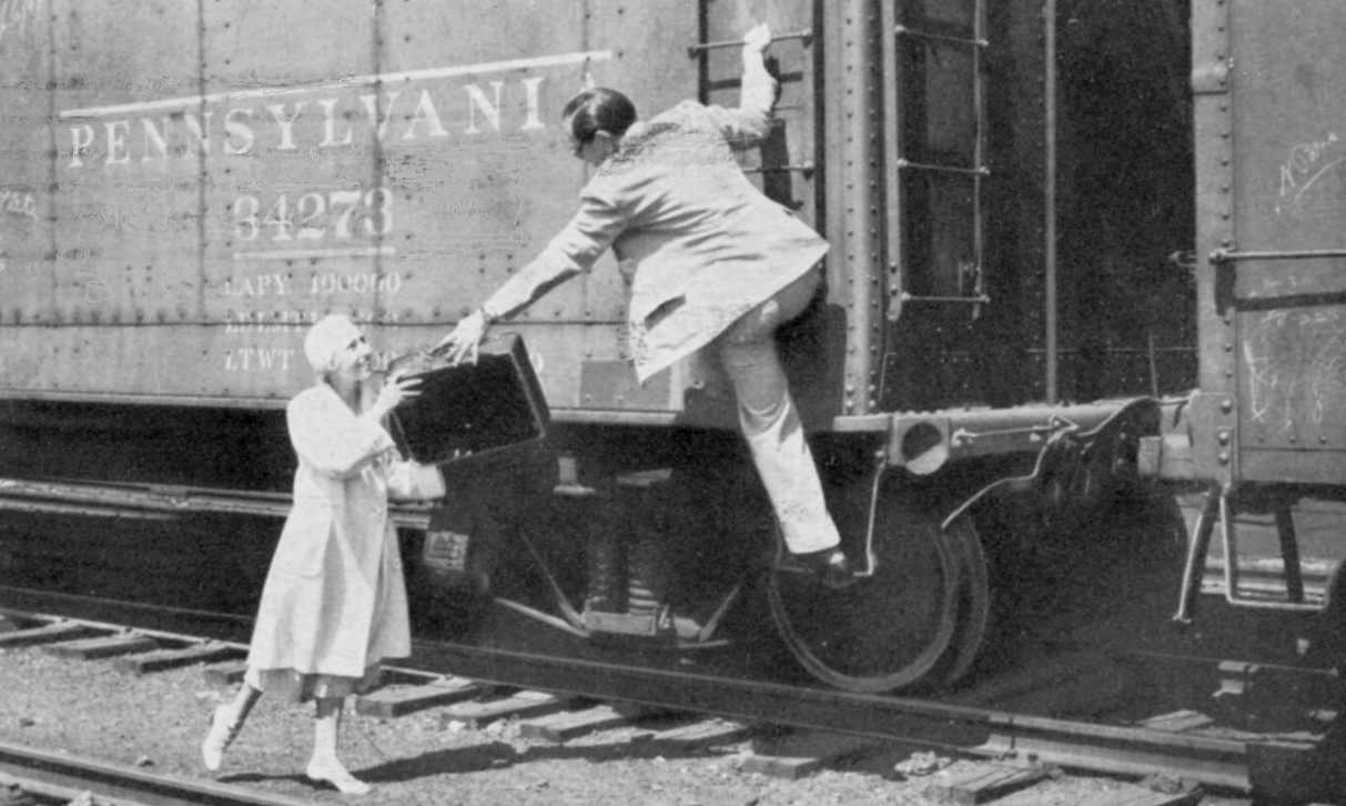 Promotional postcard for the Easy Aces radio program in the United States. Copyright details The postcard dates back to 1932 as seen on the September 17, 1932 postmark of it; there are no copyright marks on the postcard, as can be seen by examining both sides of it at the links above. It was created as a promotional item for the Easy Aces radio show by its sponsor, Lavoris. The cards were sent out to listeners to advise them that the show's summer hiatus would soon be over and that Easy Aces would begin with new episodes on September 26, 1932 on CBS Radio (Columbia Network). In 1935, the radio show changed sponsors from Lavoris to American Home Products (Anacin).